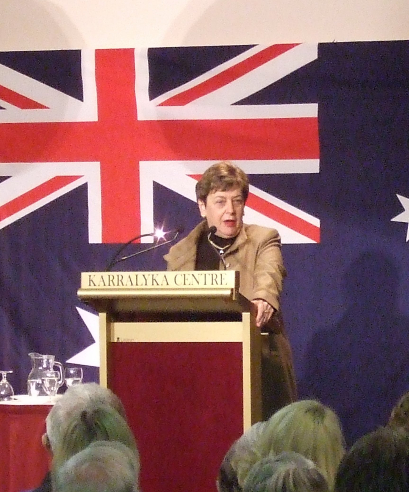 Kay Patterson.